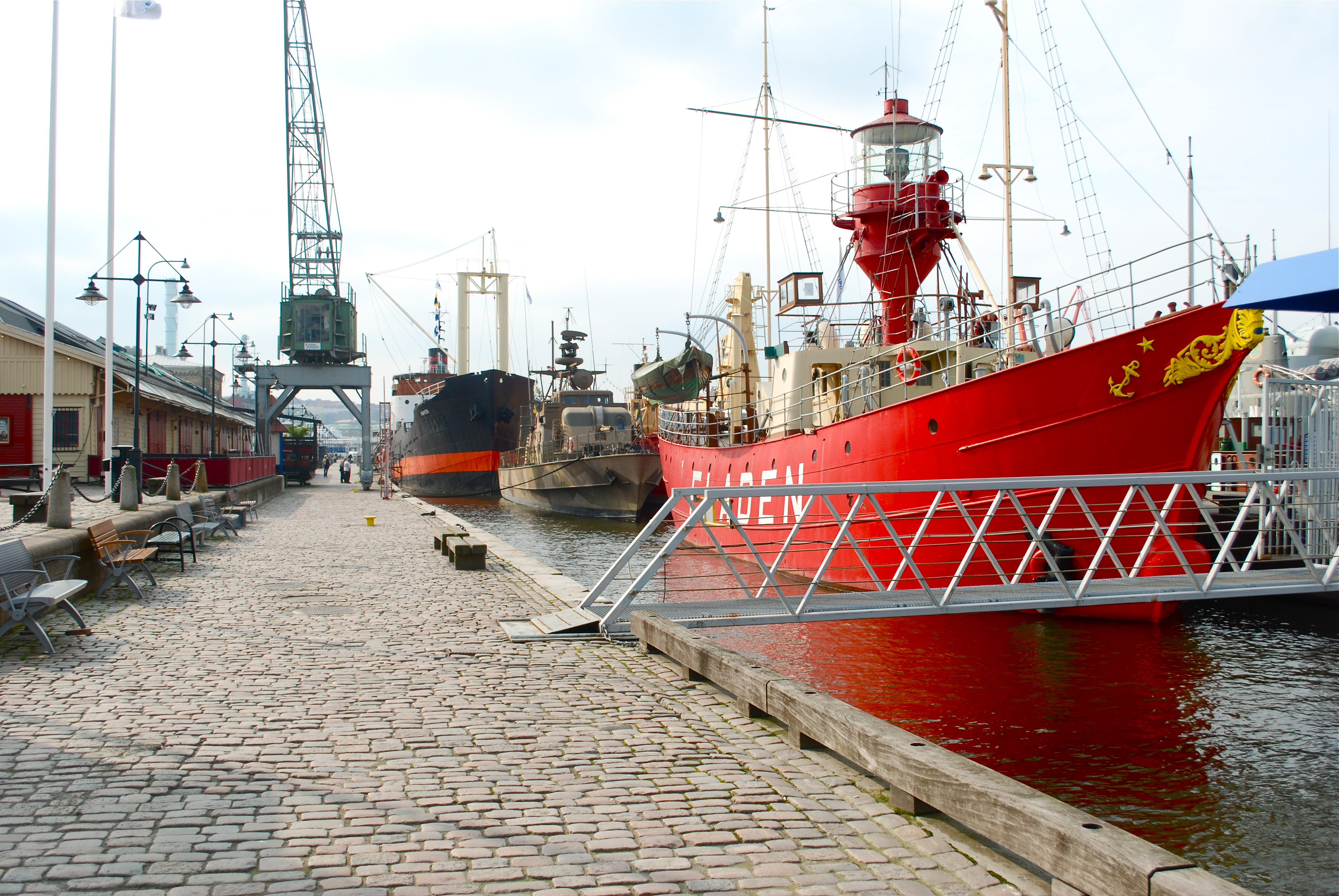 Göteborgs Maritima Centrum